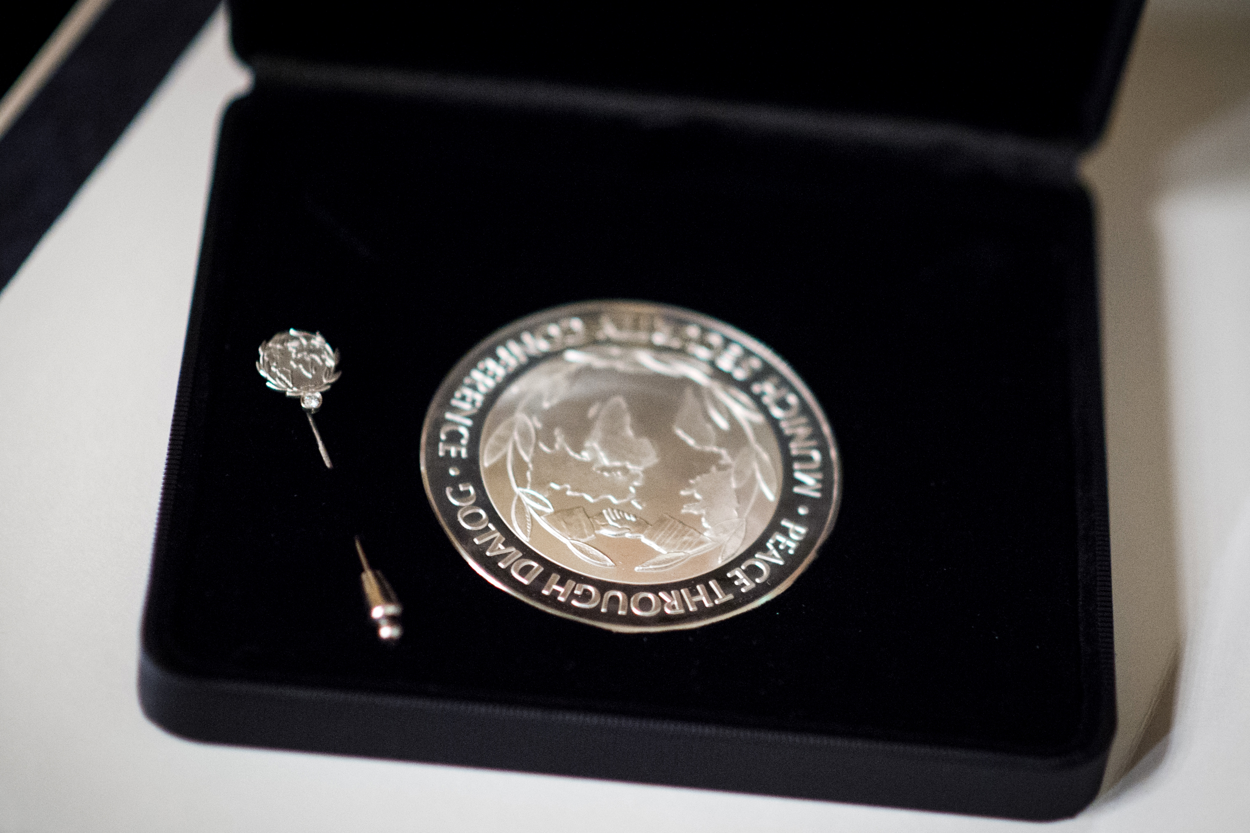 50th Munich Security Conference 2014: Ewald-von-Kleist-Award: Ewald-von-Kleist-Award